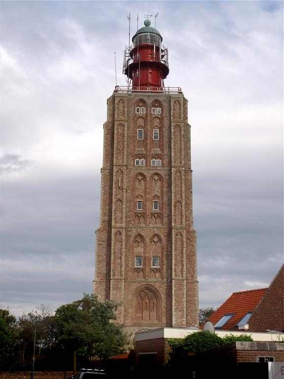 Westkapelle (Netherlands), lighthouse, photo 2008